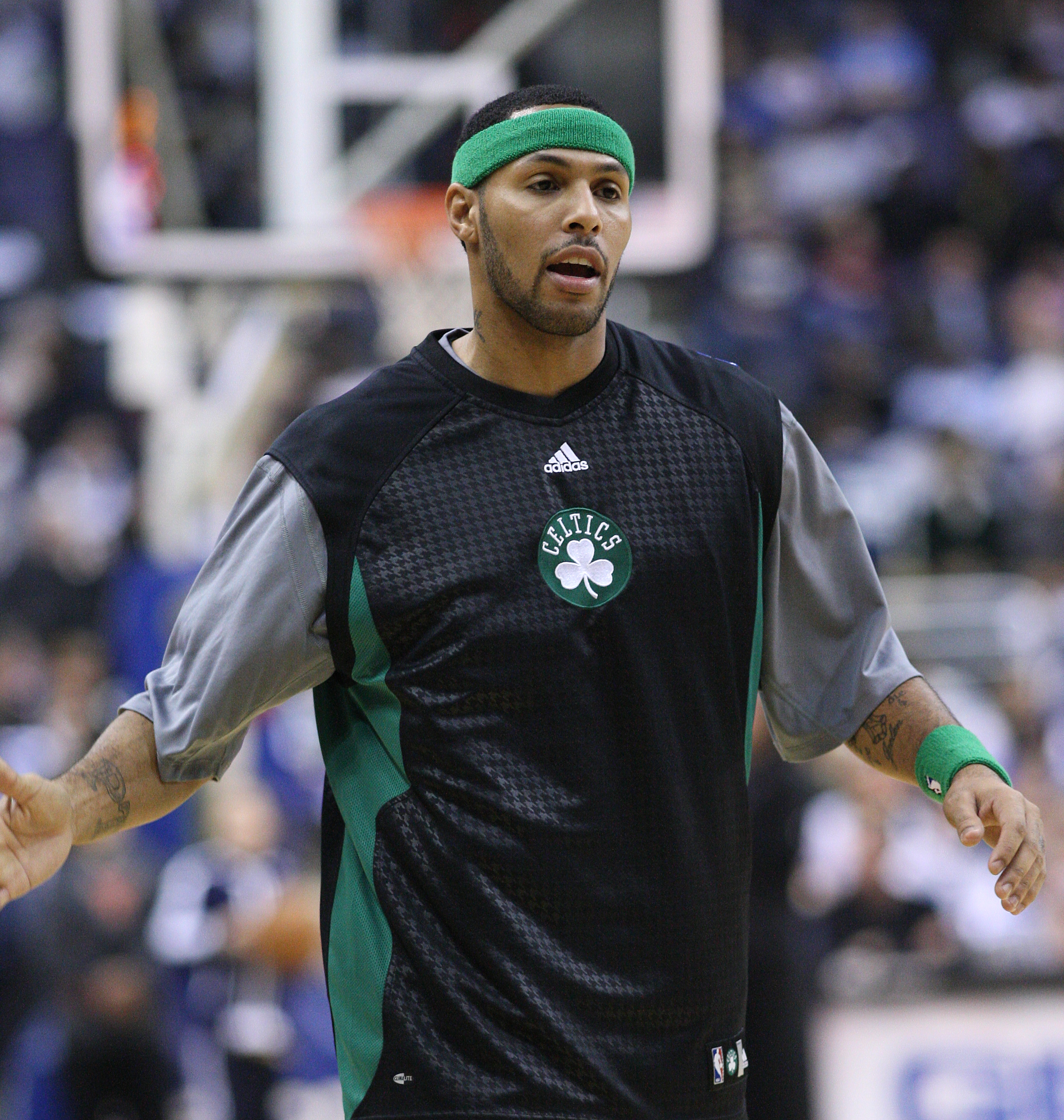 Eddie House, American basketball player for the Boston Celtics (at time of photo)